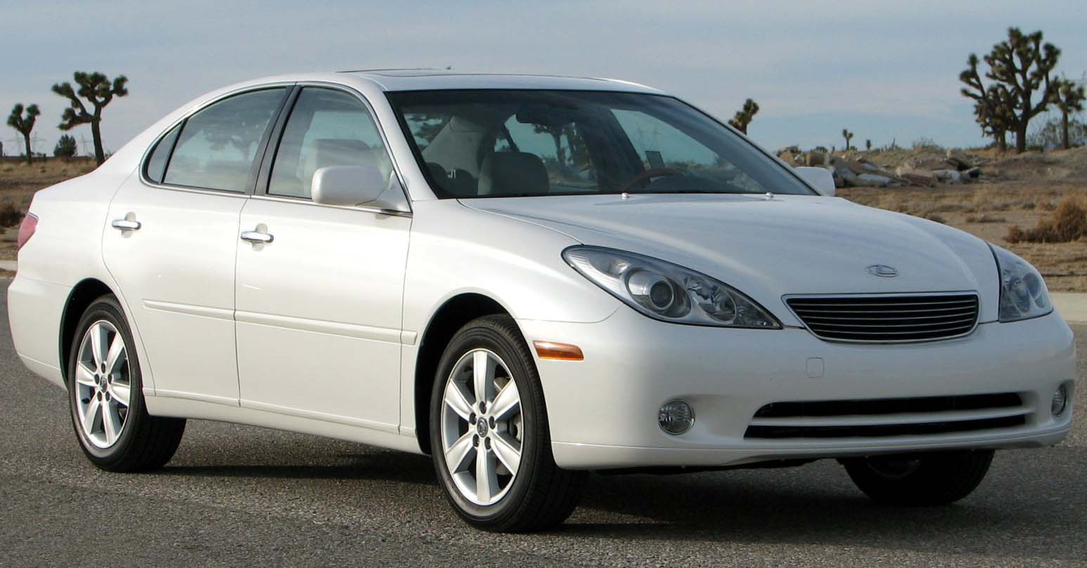 2006 Lexus ES330 photographed in USA.